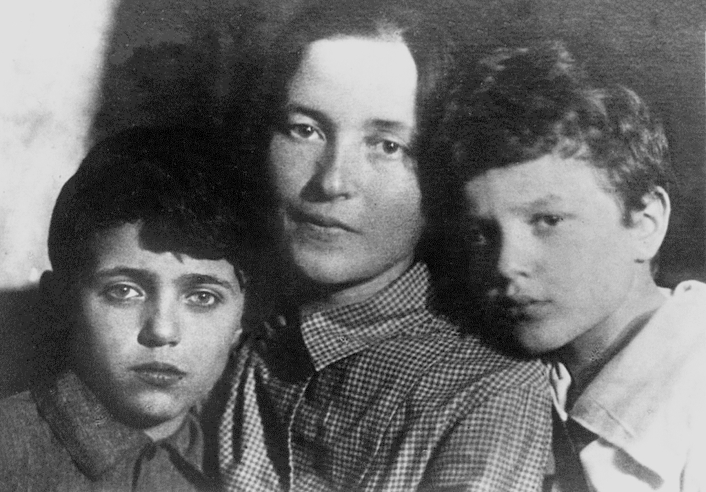 Julia Schucht (wife of Antonio Gramsci) with sons Delio (born 1924) and Giuliano (born 1926)